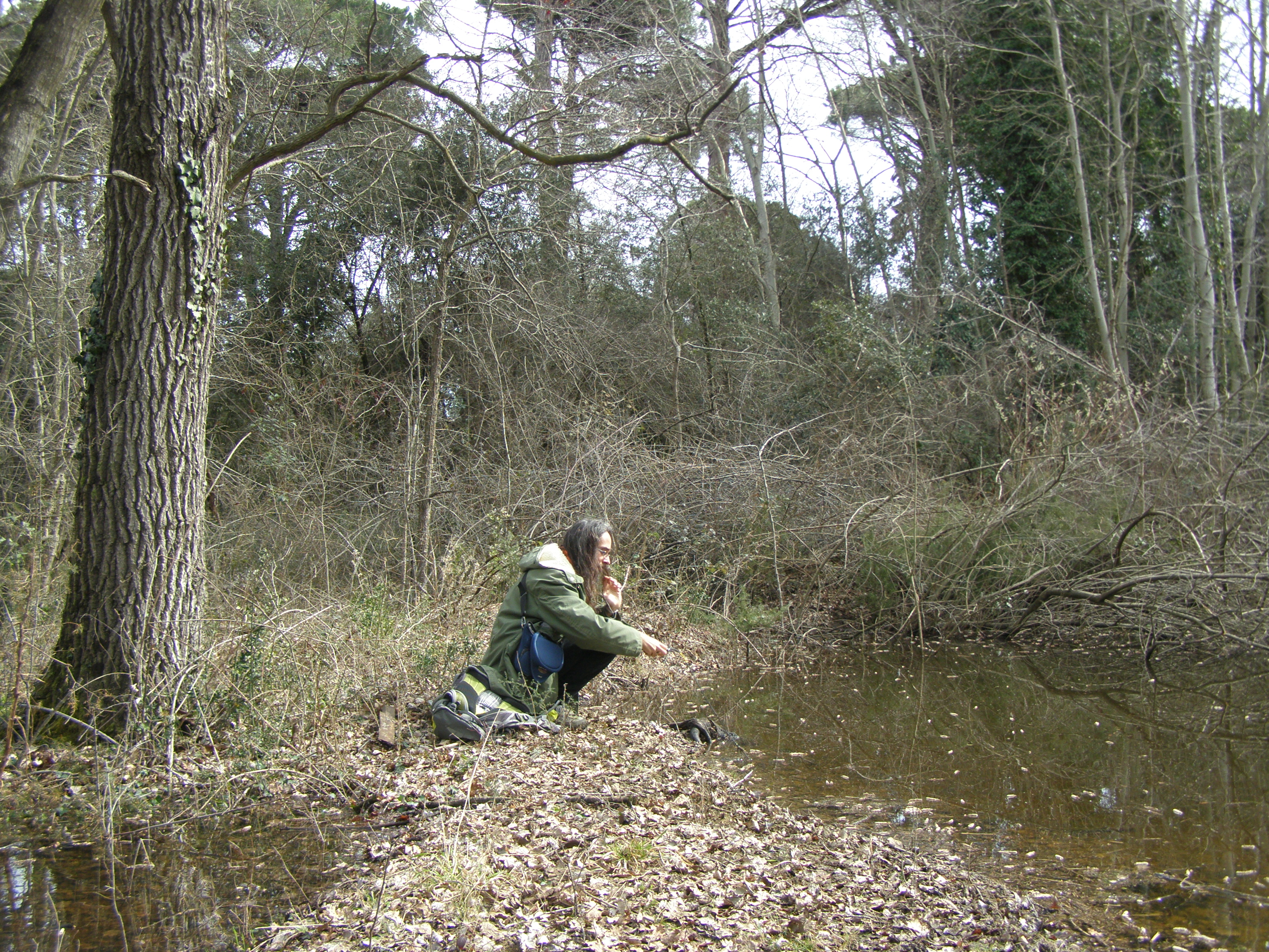 Idrophone listening, during data collecting inherent to Rana dalmatina and Amphibian community phenology in Po Delta Park (Italy).